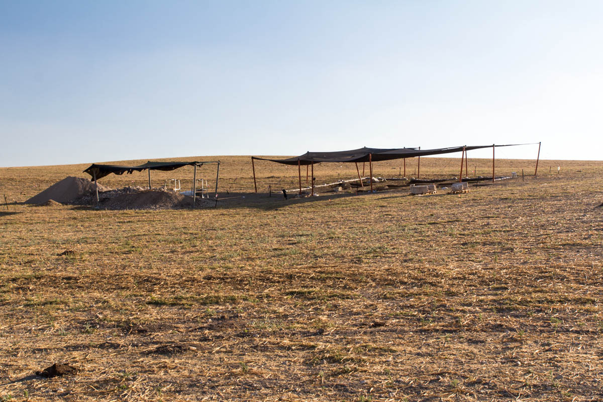 Excavation of Legio VI Ferrata camp near Megiddo, Israel